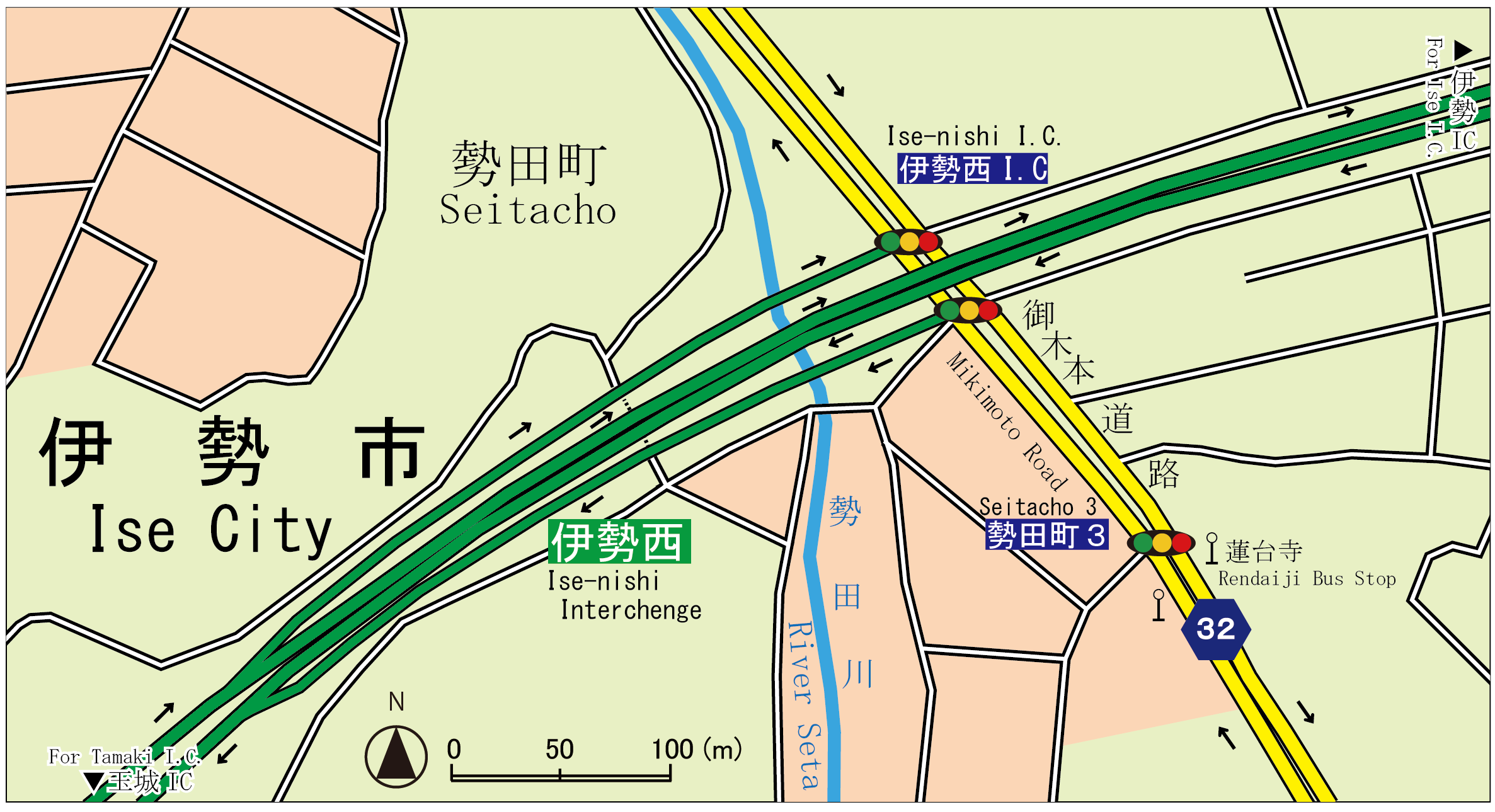 This is a map of Ise-Nishi Interchange in Ise, Mie, Japan. In this map, pink means settlements or buildings. This map may be incomplete, and may contain errors. Don't rely solely on it for navigation.